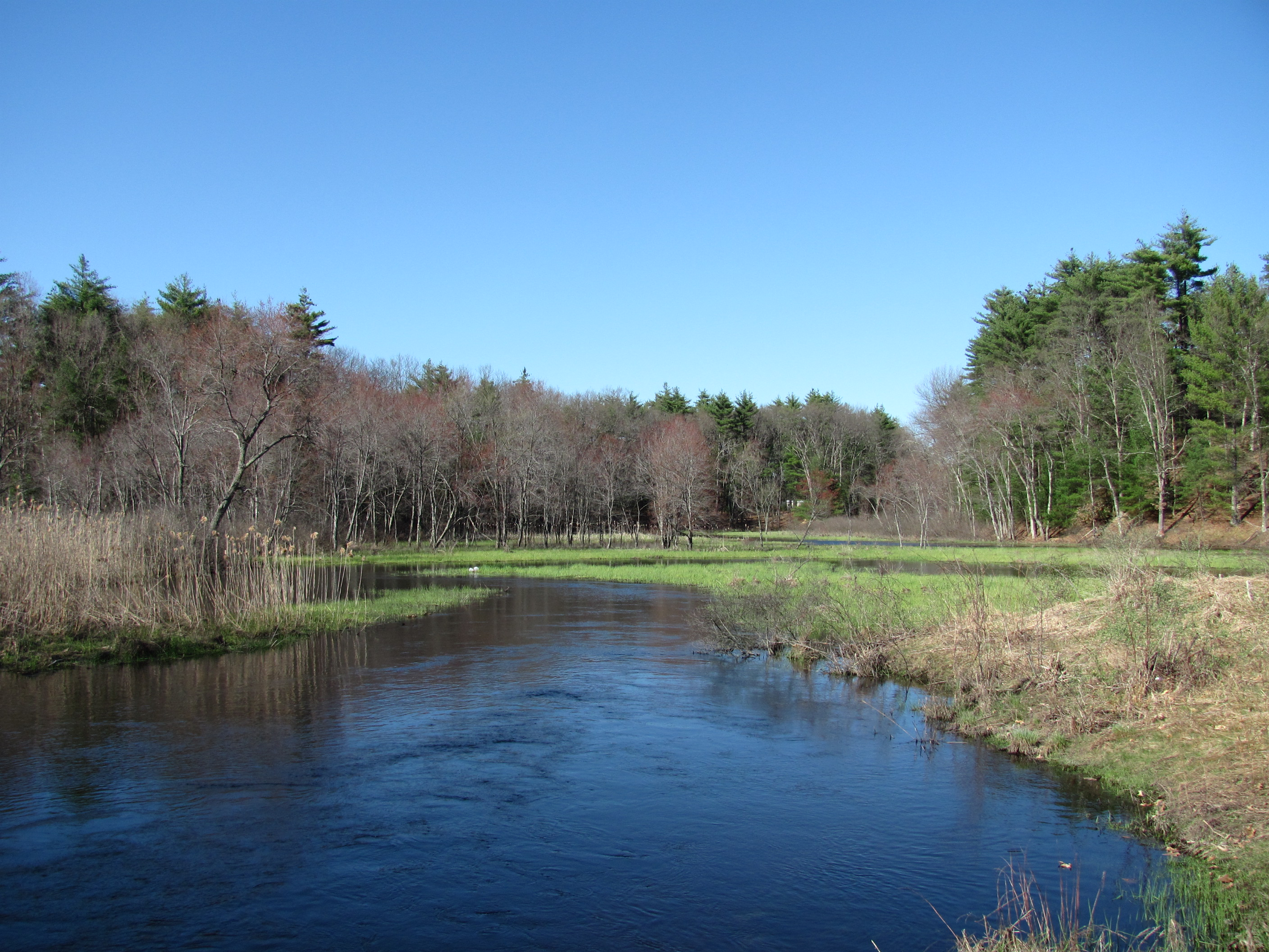 Salmon Brook looking downstream, Dunstable Massachusetts